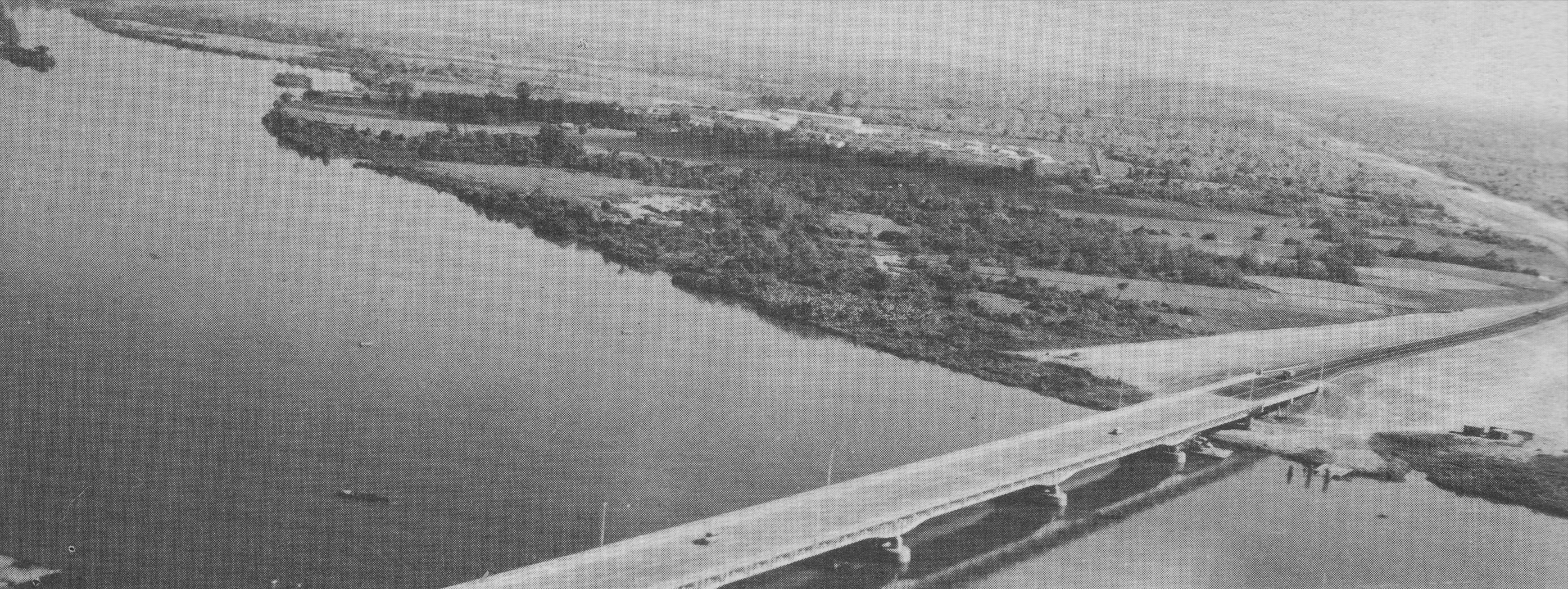 Bien-hoa Highway bridge spanning the Dong Nai River